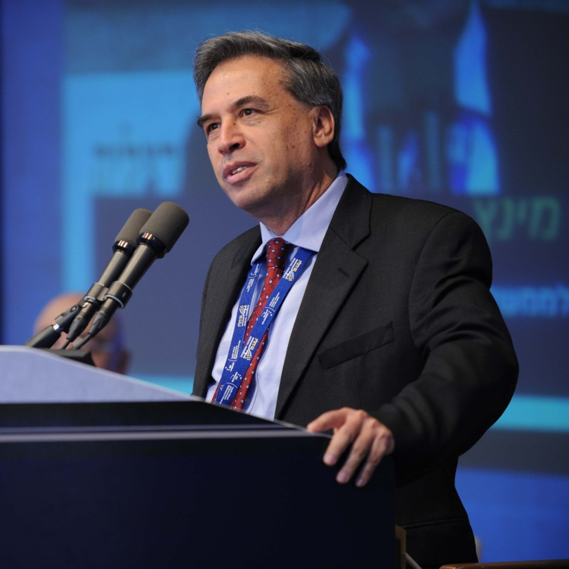 Prof. Alex Mintz serves as Dean of the Lauder School of Government, Diplomacy and Strategy at the Interdisciplinary Center Herzliya